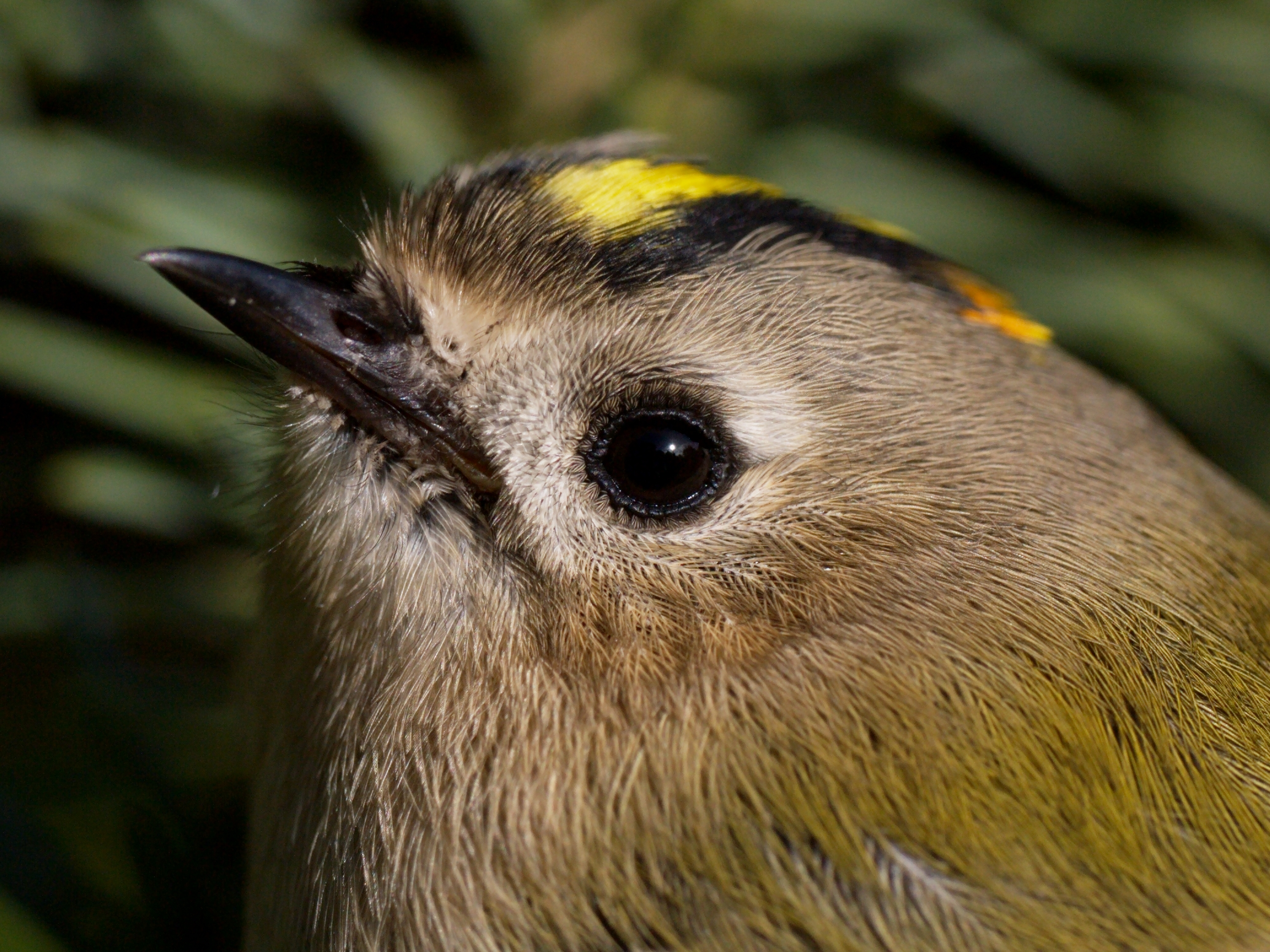 A Goldcrest in Auderghem, Brussels, Belgium.